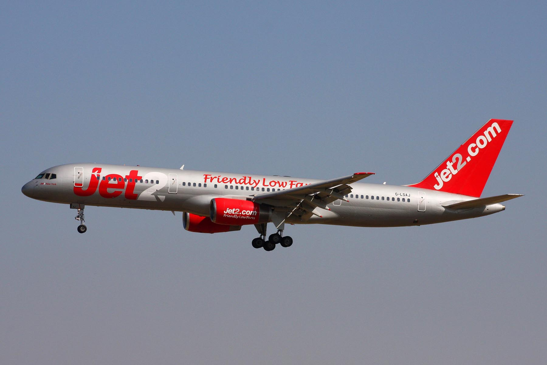 addl 'Friendly Low Fares' titles